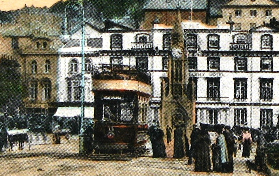 Car 11 of Torquay Tramways waits on The Strand in Torquay, Devon, England. This collected its power from studs in the road (the Dolter system) so that this seaside resort was not 'disfigured' by tram wires.